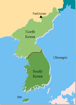 Korean Peninsula, with Paektusan, Ulleungdo, Jeju and the two Koreas labeled.